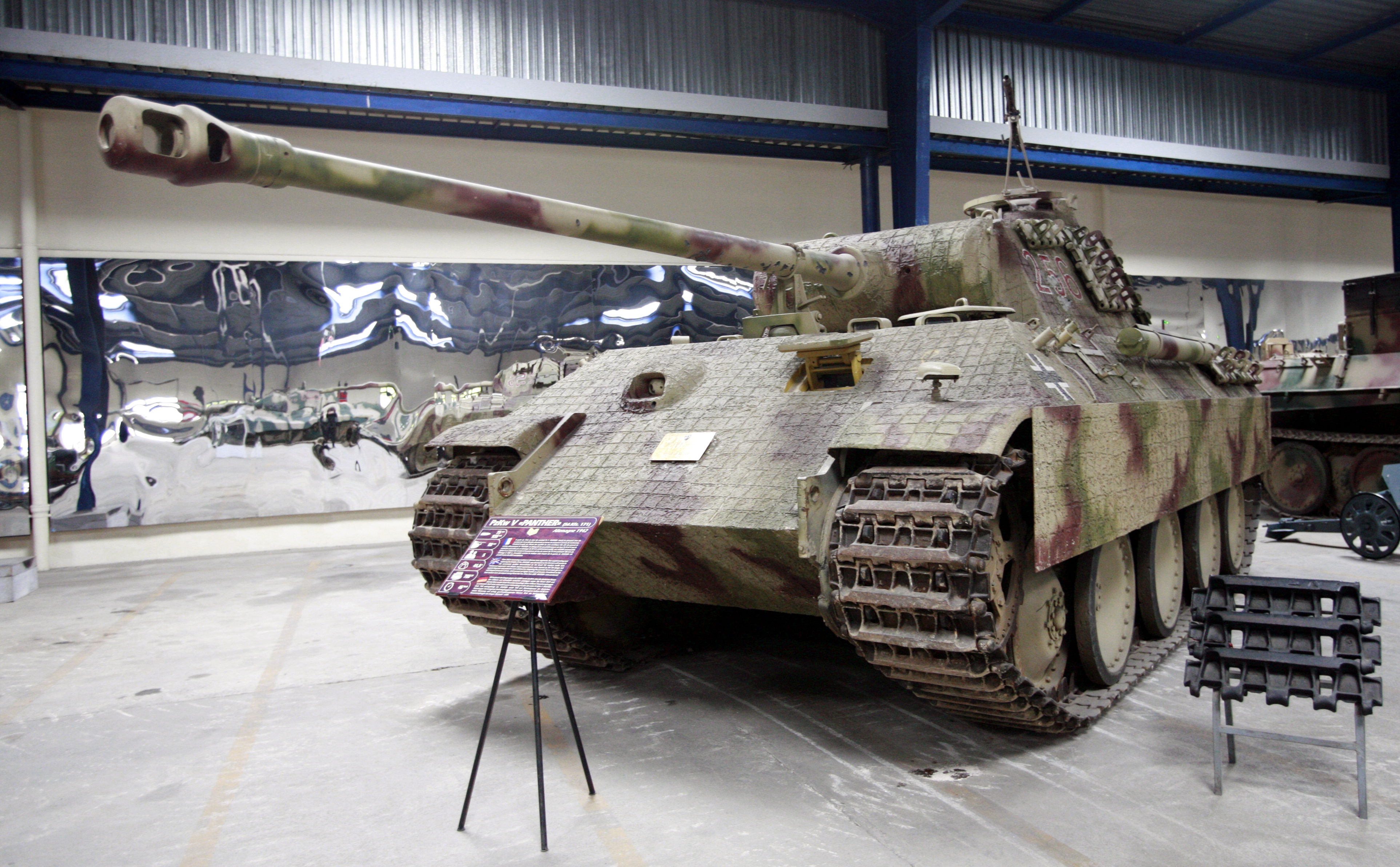 Panther tank. On display at Saumur Général Estienne museum.